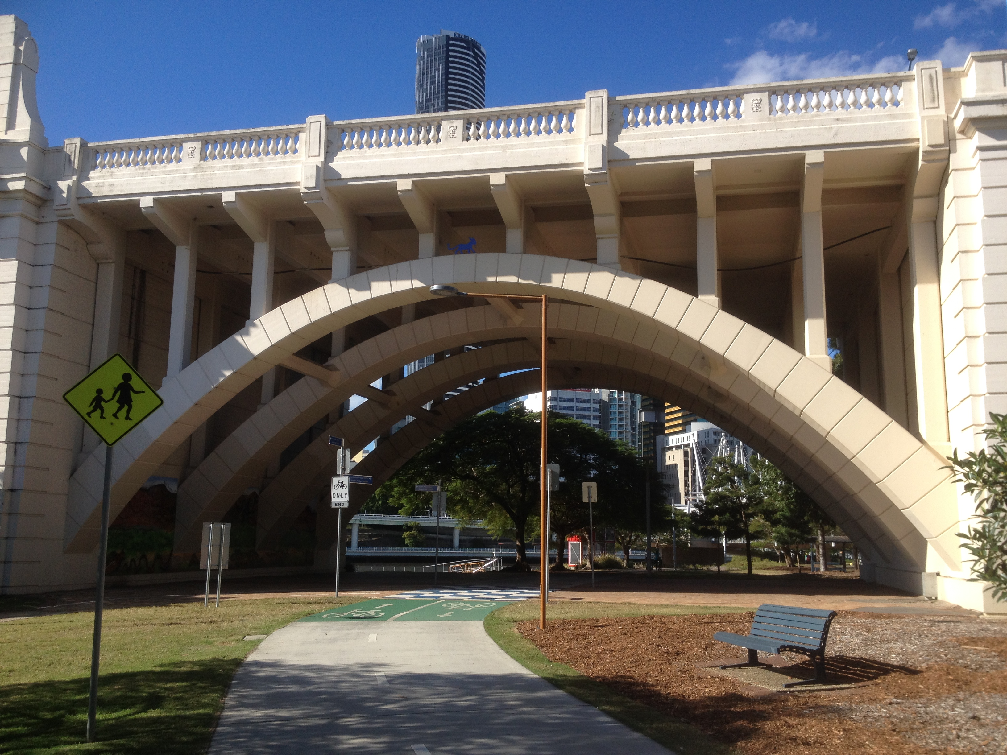 Footpath under William Jolly Bridge at the South Brisbane side